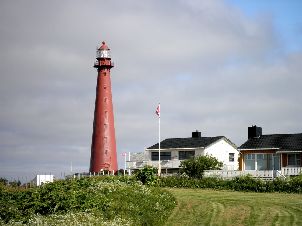 The lighthouse in Andenes, Norway